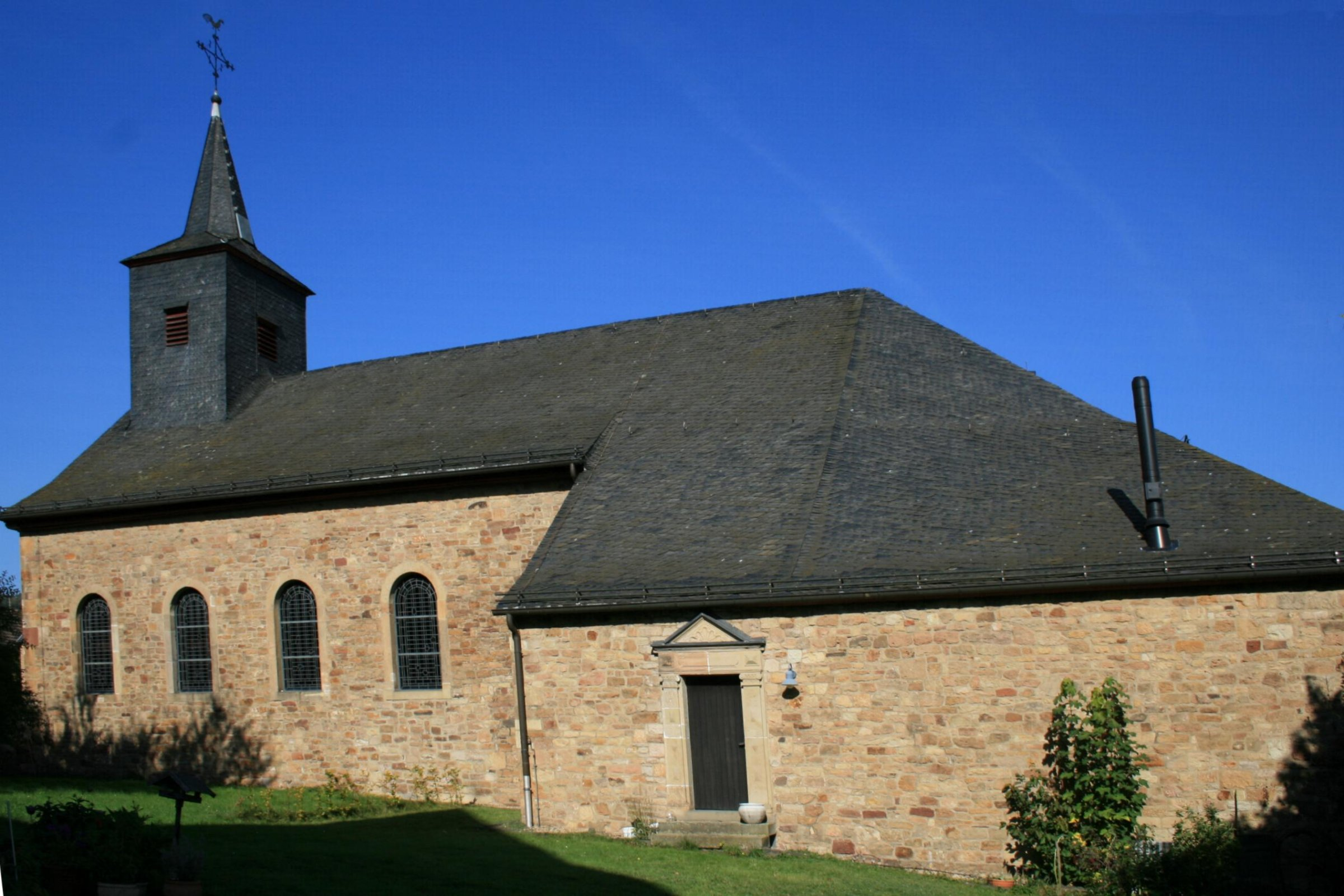 Cultural heritage monument No. 57 in Kreuzau